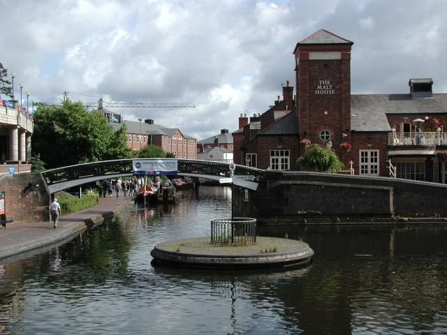 Canal Roundabout at Old Turn Junction (sometimes, incorrectly known as Farmer's Bridge Junction). The junction of the Birmingham and Fazeley Canal and the Birmingham Canal Navigations Main Line between the National Indoor Arena and Gas Street Basin. In the distance is Cambrian Wharf. Narrowboats line the canal for the Birmingham Canal Festival.